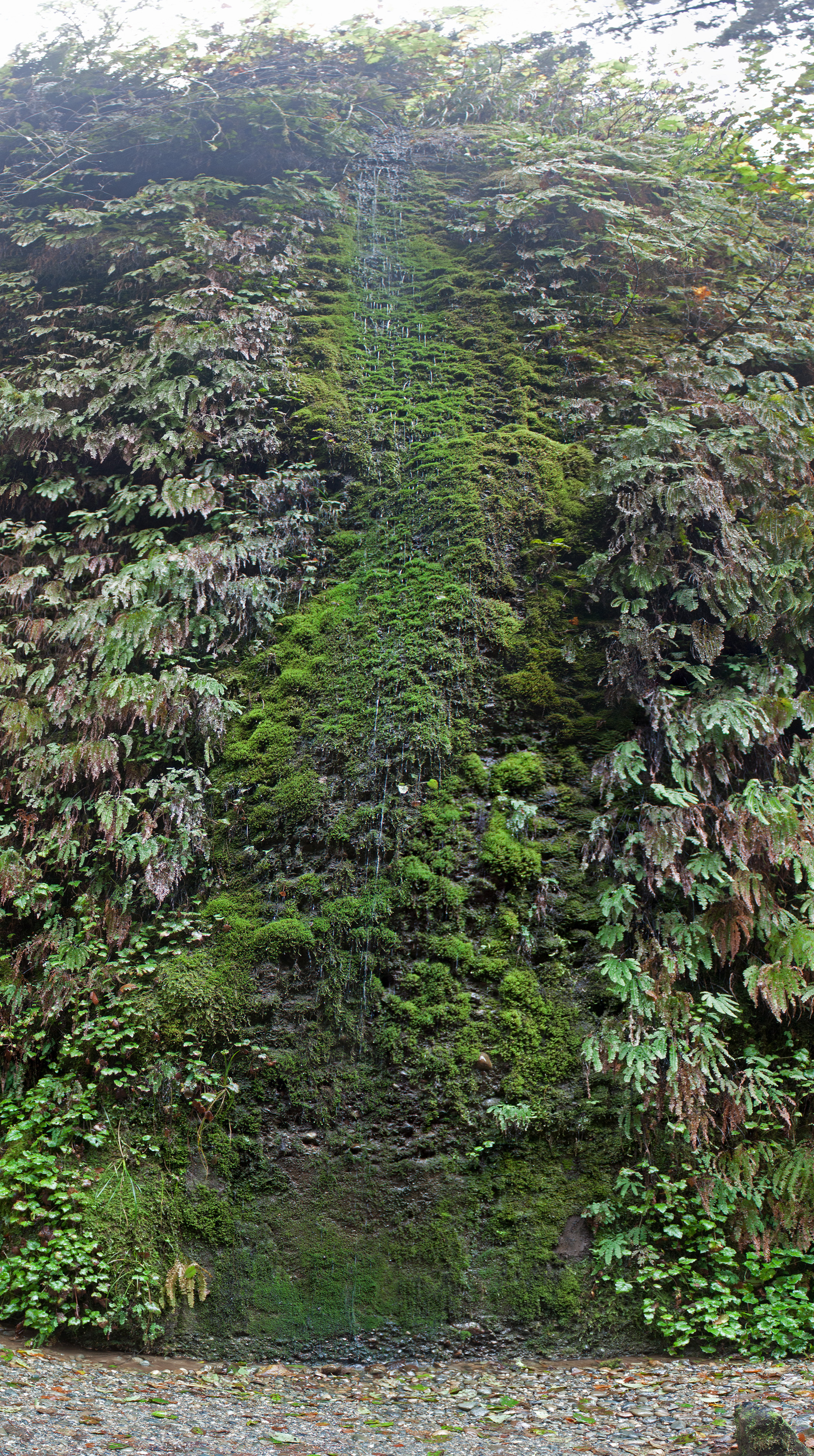 Moss cascades down the wall of Fern Canyon {Prairie Creek Redwoods State Park, California) where water trickles over the edge.